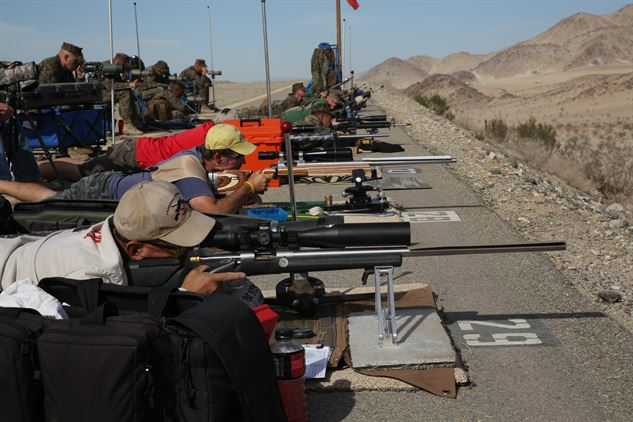 1000 yard competition shooting at Twentynine Palms, California during the High Desert Regional Shooting Competition 13. November 2014